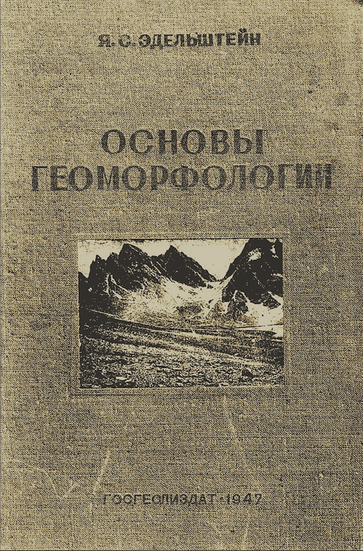 The cover of the book by J. S. Edelstein "Fundamentals of geomorphology."